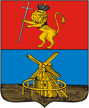 Melenki (Vladimir Governorate), coat of arms (1781)